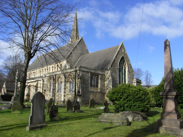 Parish Church of St Mark, Swindon New Town This is the new town of Brunel and Gooch from the 1840s and nothing as recent as Redditch, MK or Telford. The Church is on the edge of the works and railway village. This pleasing aspect has not been posted yet.